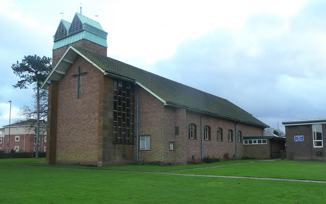 St. John the Baptist's church, Longbridge Built in 1957 to serve the then-burgeoning car-making suburb, this interesting building appears to be orientated north-east - south-west. Viewed from the north.